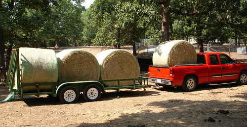 A truck and flatbed trailer hauling round bales of hay.